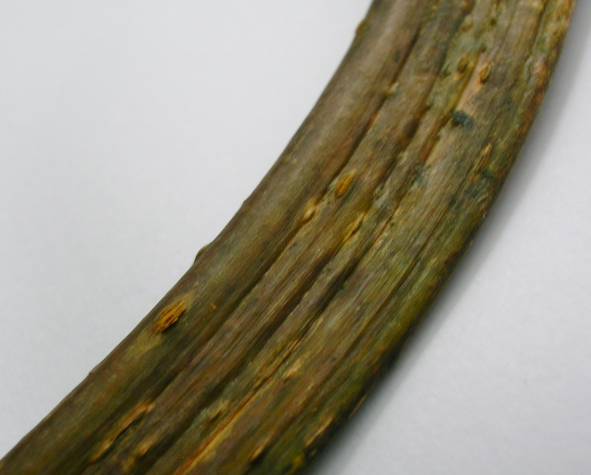 Fasciated Prunus species stem showing divisions, Barrmill, North Ayrshire, Scotland.